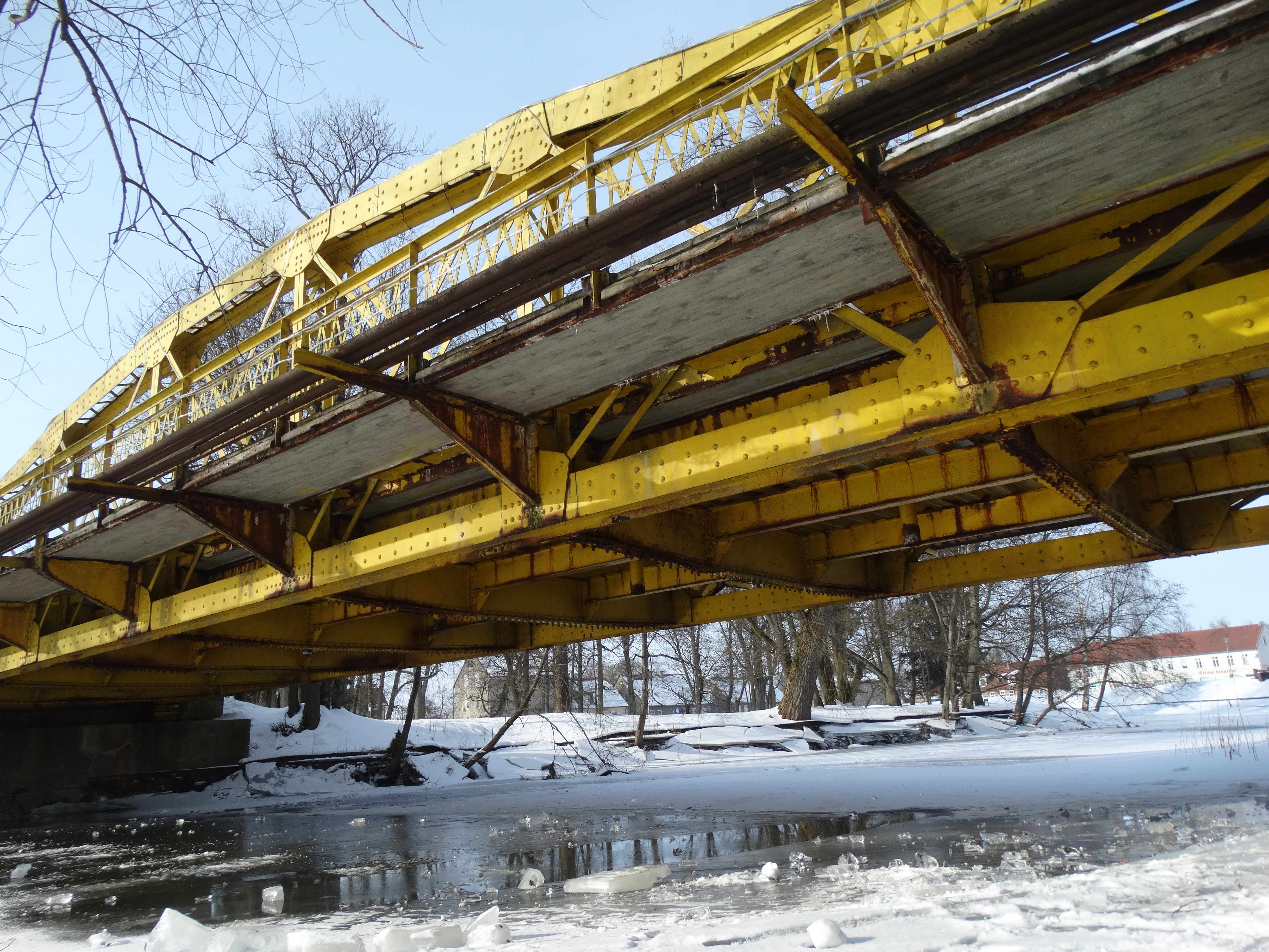 Yellow bridge, Šilutė, Lithuania